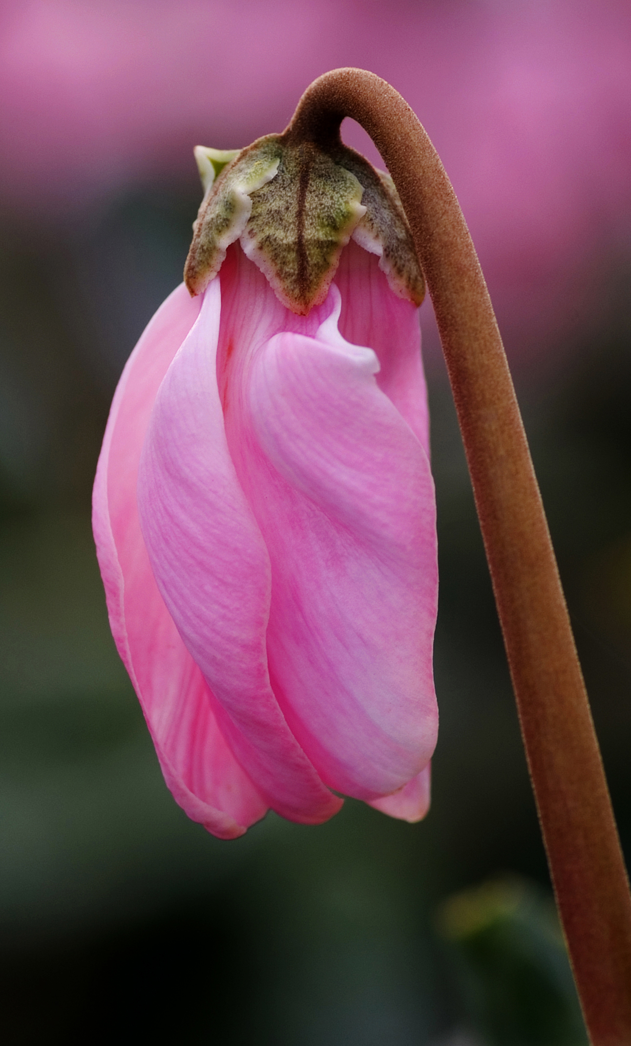 A Cyclamen persicum cultivar (florists' cyclamen).